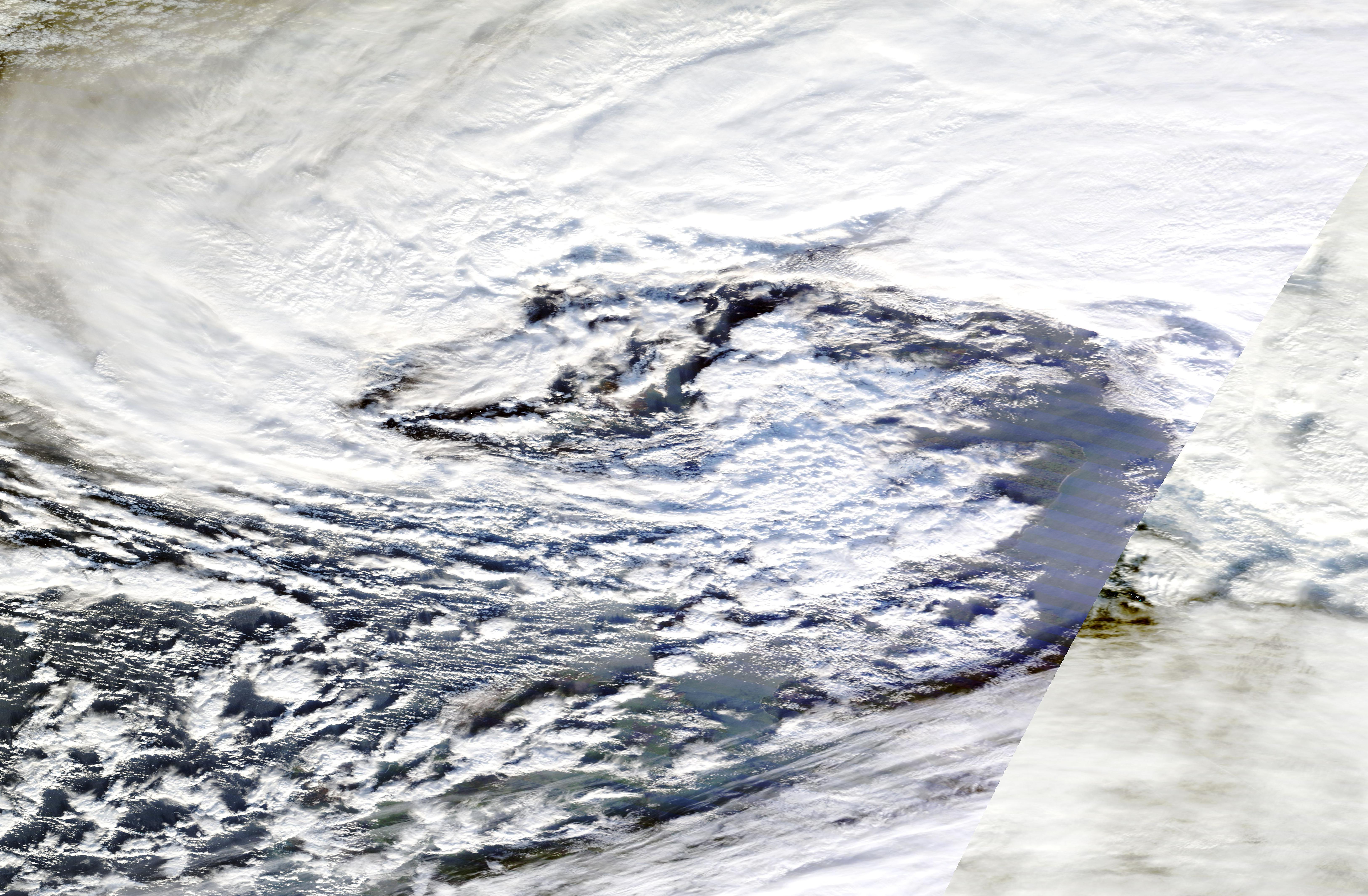 Windstorm Friedhelm (or Bawbag) was an intense area of low pressure that affected parts of the United Kingdom on December 8, 2011.